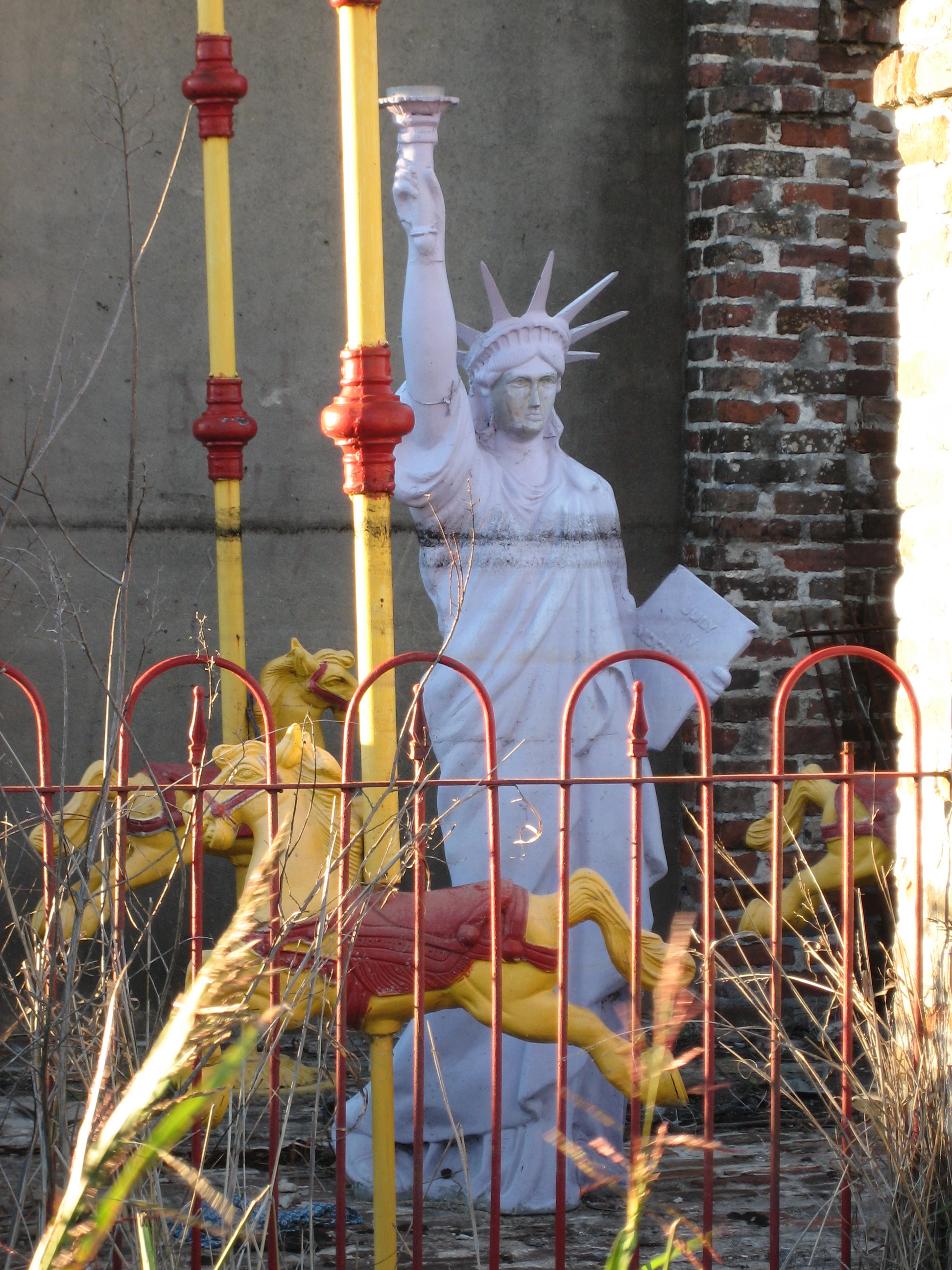 New Orleans after Hurricane Katrina: Decorative metal statue of Liberty with flood lines, Central City neighborhood.